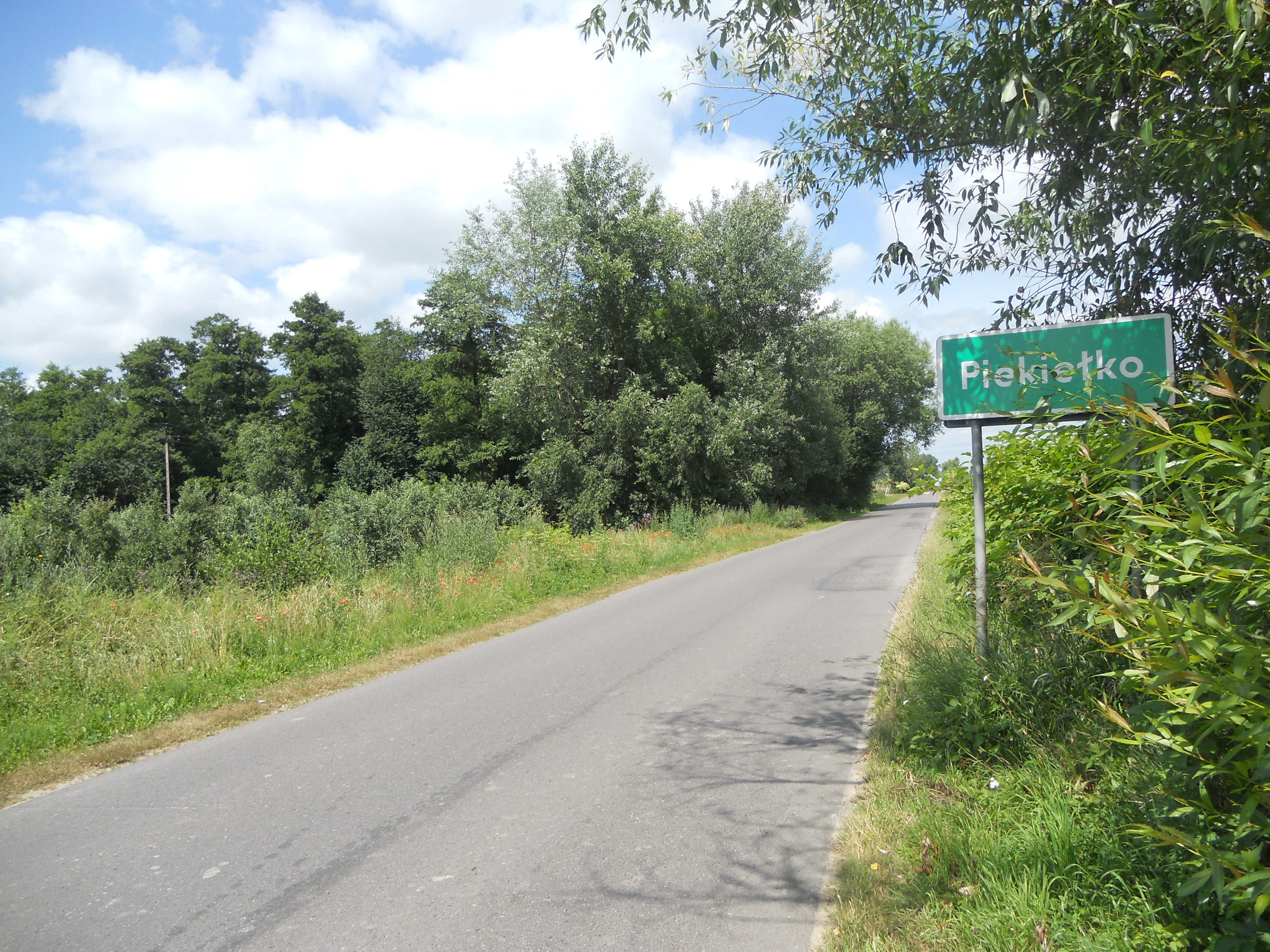 Piekielko